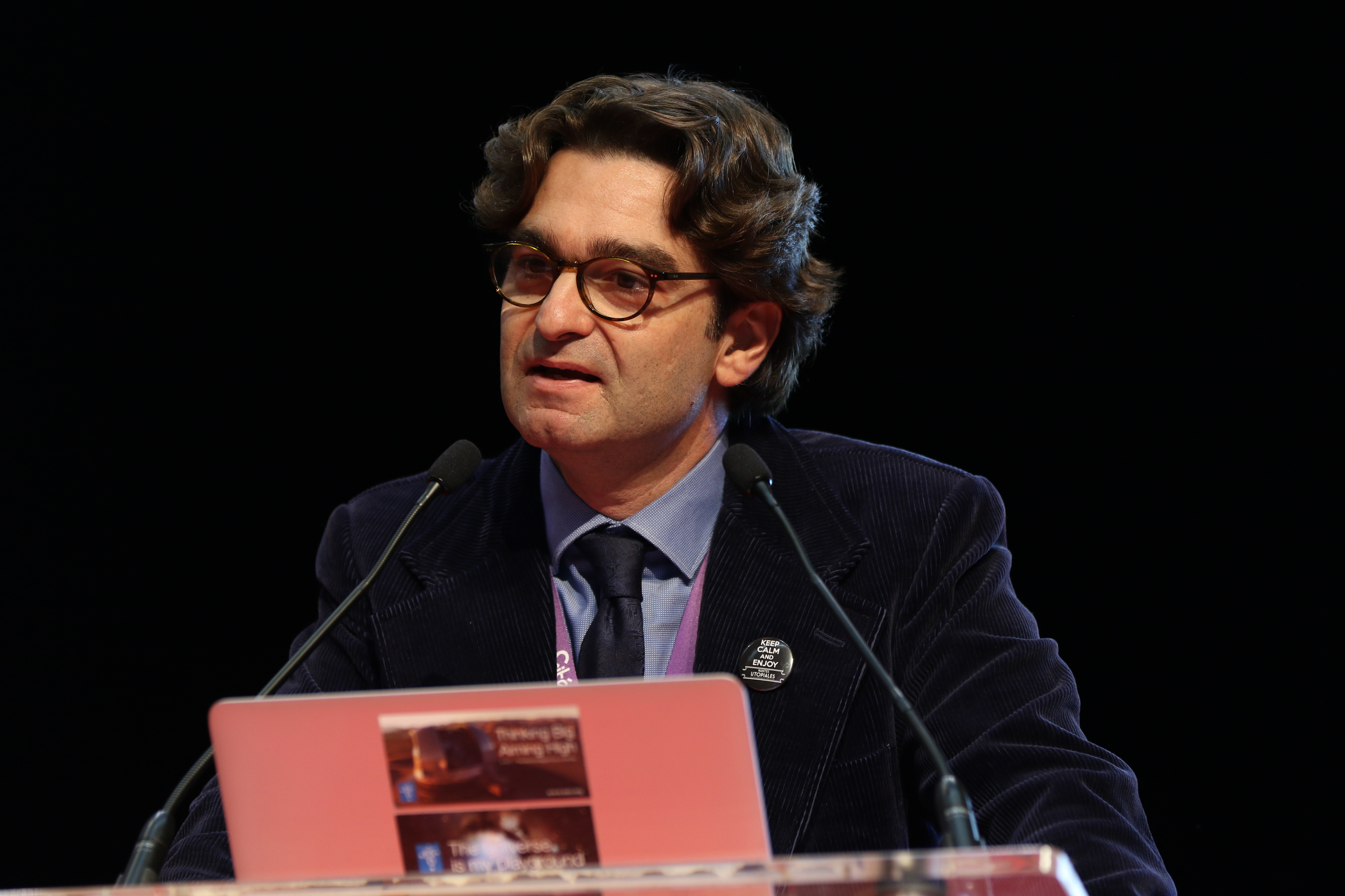 photograph taken at the 2015 edition of the "Utopiales" of Nantes.